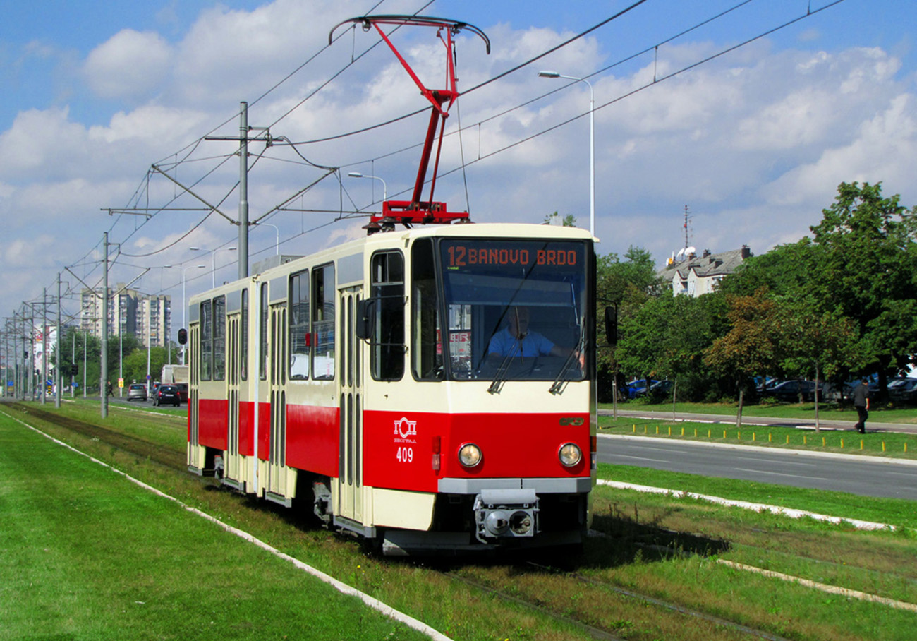 Original Tatra ČKD KT4